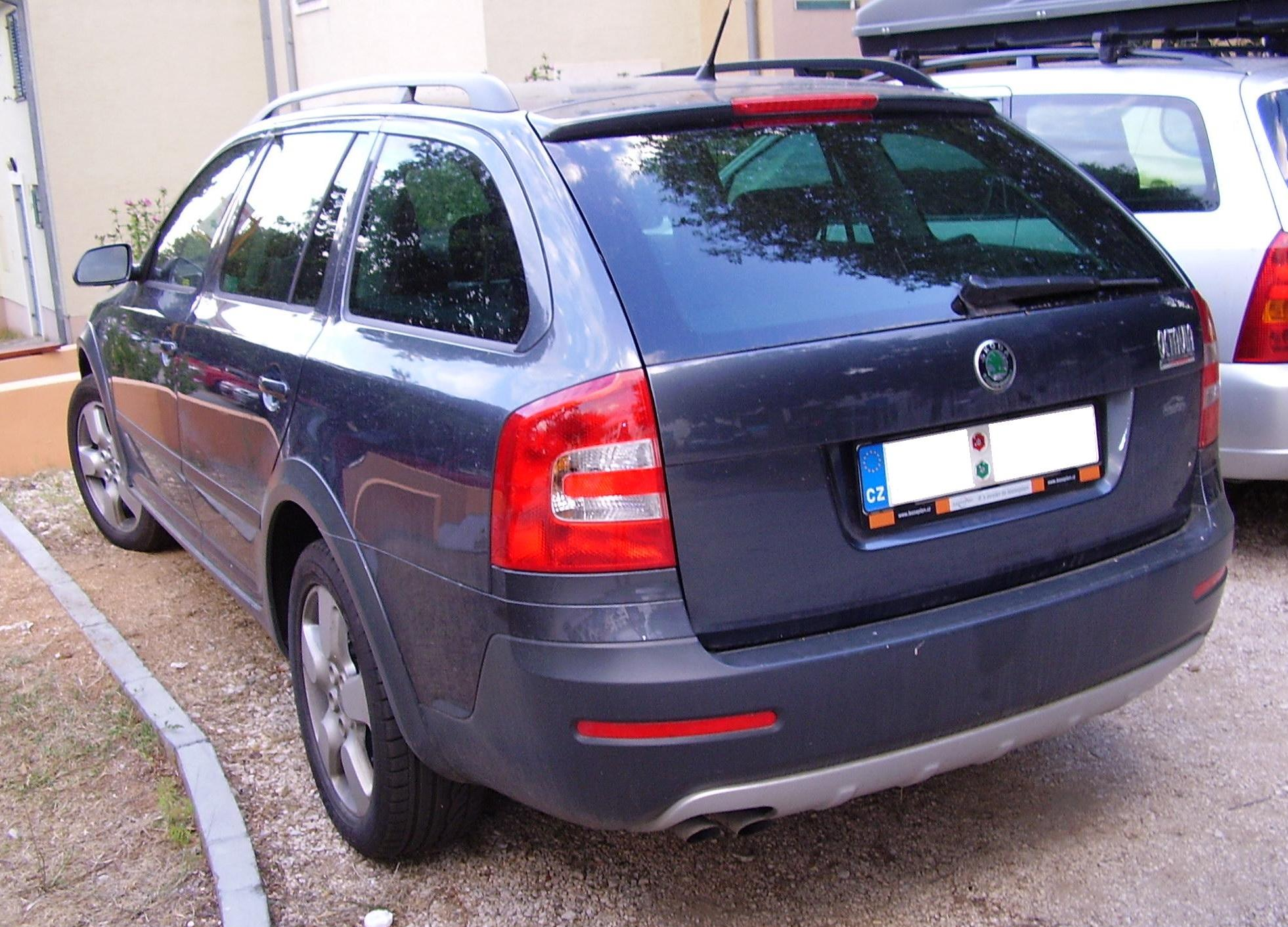 Škoda Octavia II Scout in Sveti Filip i Jakov (Croatia)